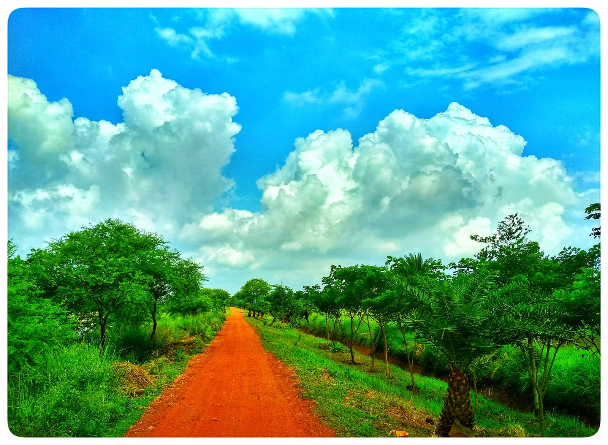 Barsul village 2018